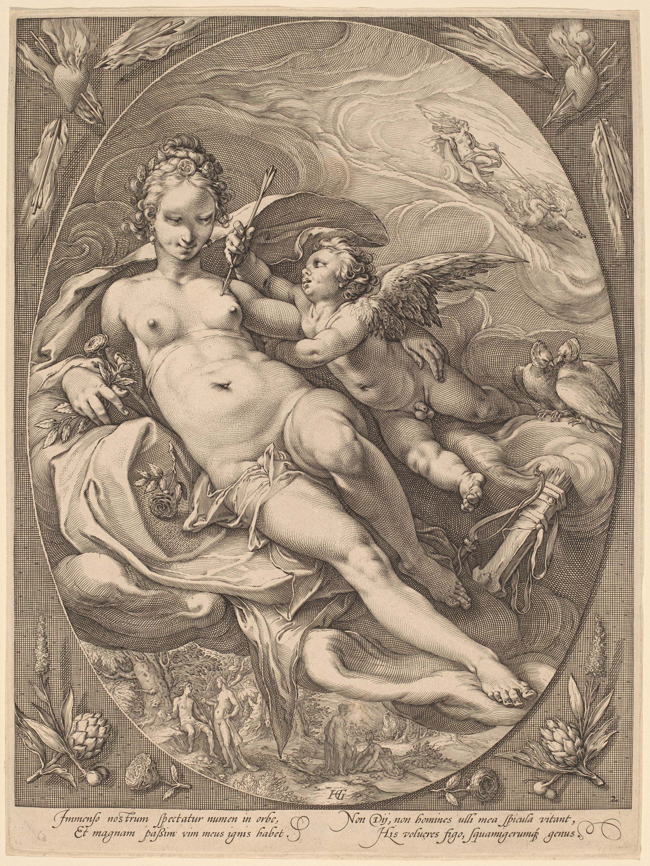 Venus and Amor, engraving by Jan Saenredam after Hendrick Goltzius, 1596